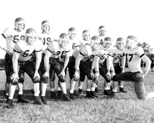 Local call number: PR12752 Title: Florida State University football squad: Tallahassee, Florida Date: 1947 General note: Front (L-R): David Middlebrooks, RT; Jack Tully, RG; Buddy Bryant, C; Jim Quigley, LG; Leonard Gilbert, LT; Jack MacMillan, QB (Kneeling). Back (L-R): Chris Banakas, RE; Leonard Melton, RHB; John Watson, FB; Wesley Carter, LHB; Jim Costellos, LE. Physical descrip: 1 photonegative - b&w - 3 x 5 in Series Title: Print collections Repository: State Library and Archives of Florida, 500 S. Bronough St., Tallahassee, FL 32399-0250 USA. Contact: 850.245.6700. Persistent URL: Visit Florida Memory to learn more about the history of college football in Florida.